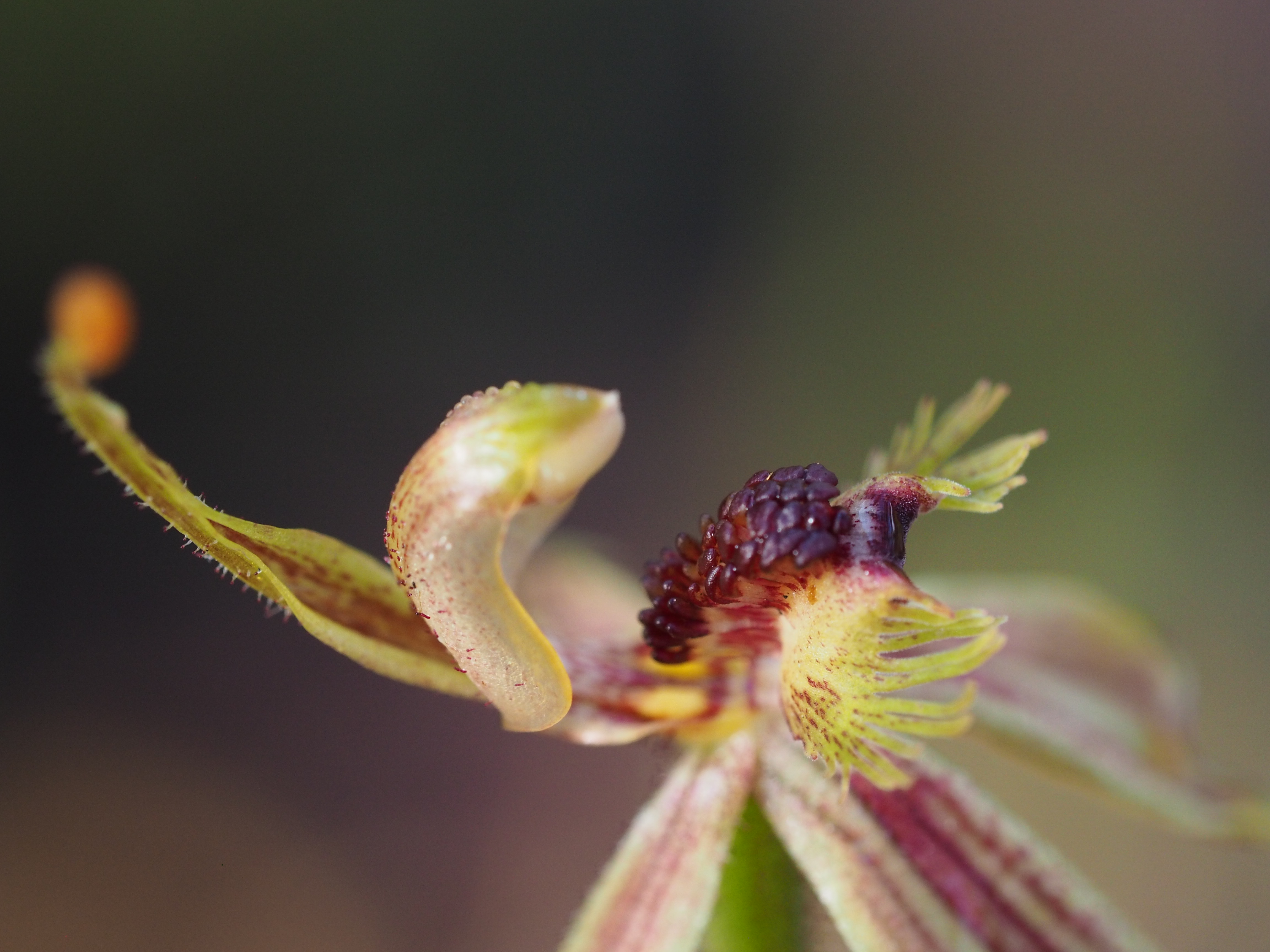 Caladenia plicata growing near Mount Barker Hospital in Western Australia